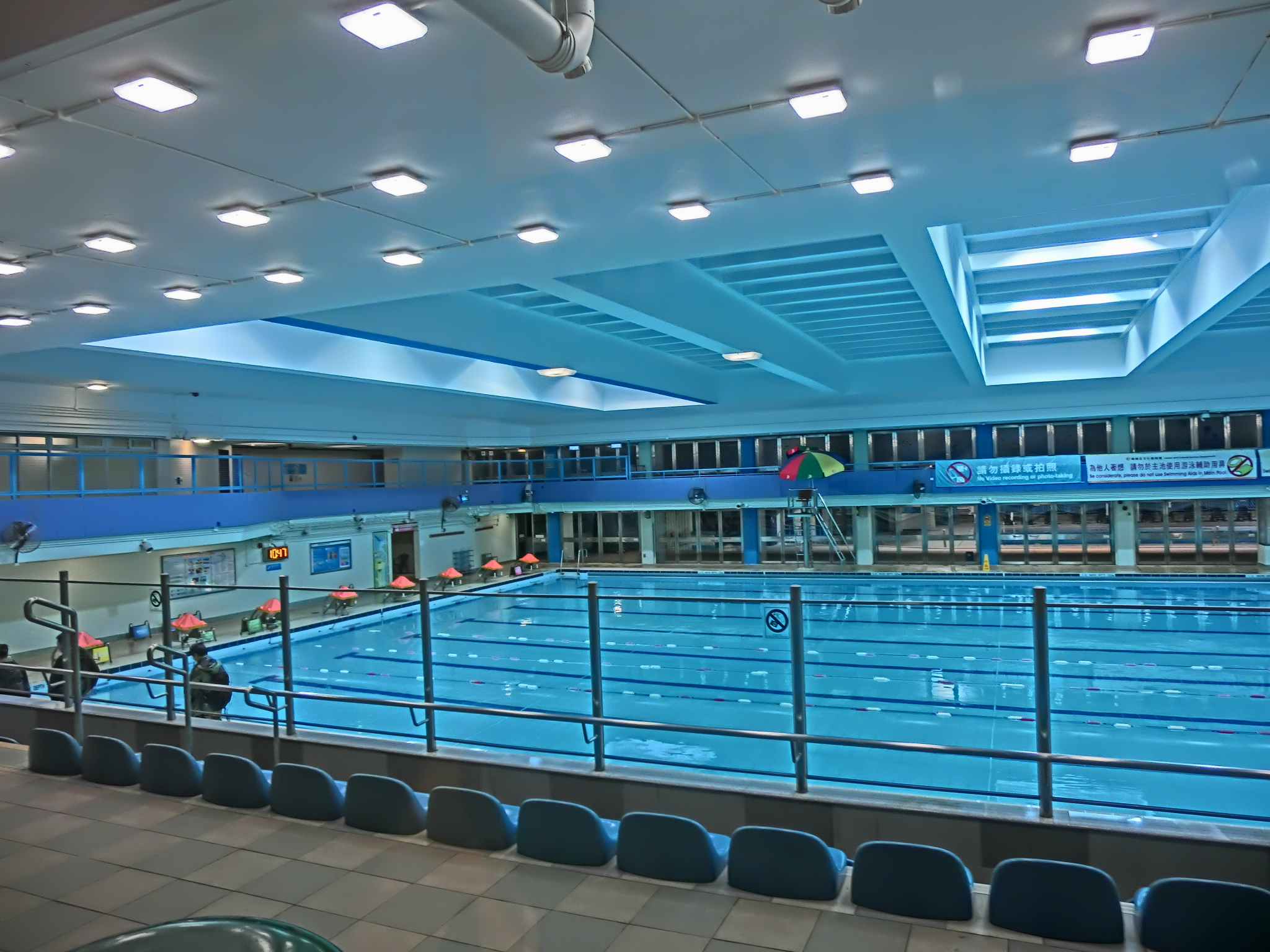 灣仔 摩理臣山游泳池, Morrison Hill Swimming Pool, Oi Kwan Road, Wan Chai, Hong Kong